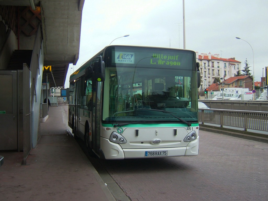 Heuliez Bus GX127 on t-IGR line at Villejuif — Louis Aragon station.